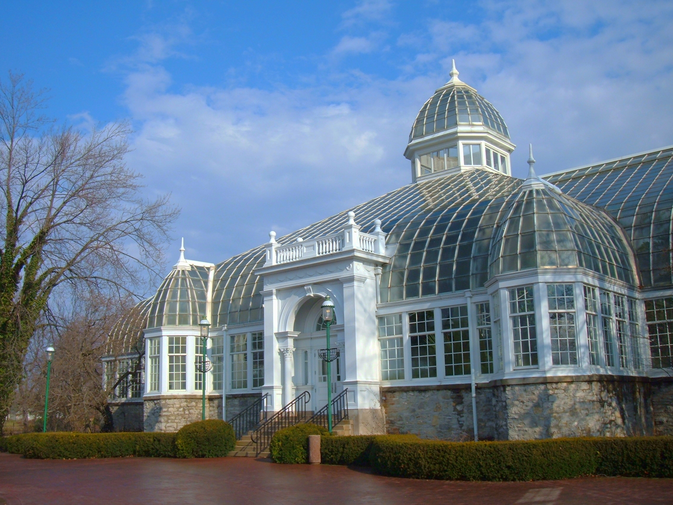 Franklin Park Conservatory, original western entrance. Taken by WKC.